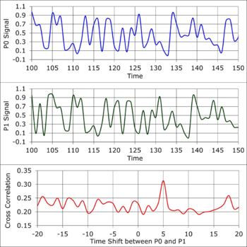 Fig. 3b. Señal de banda ancha